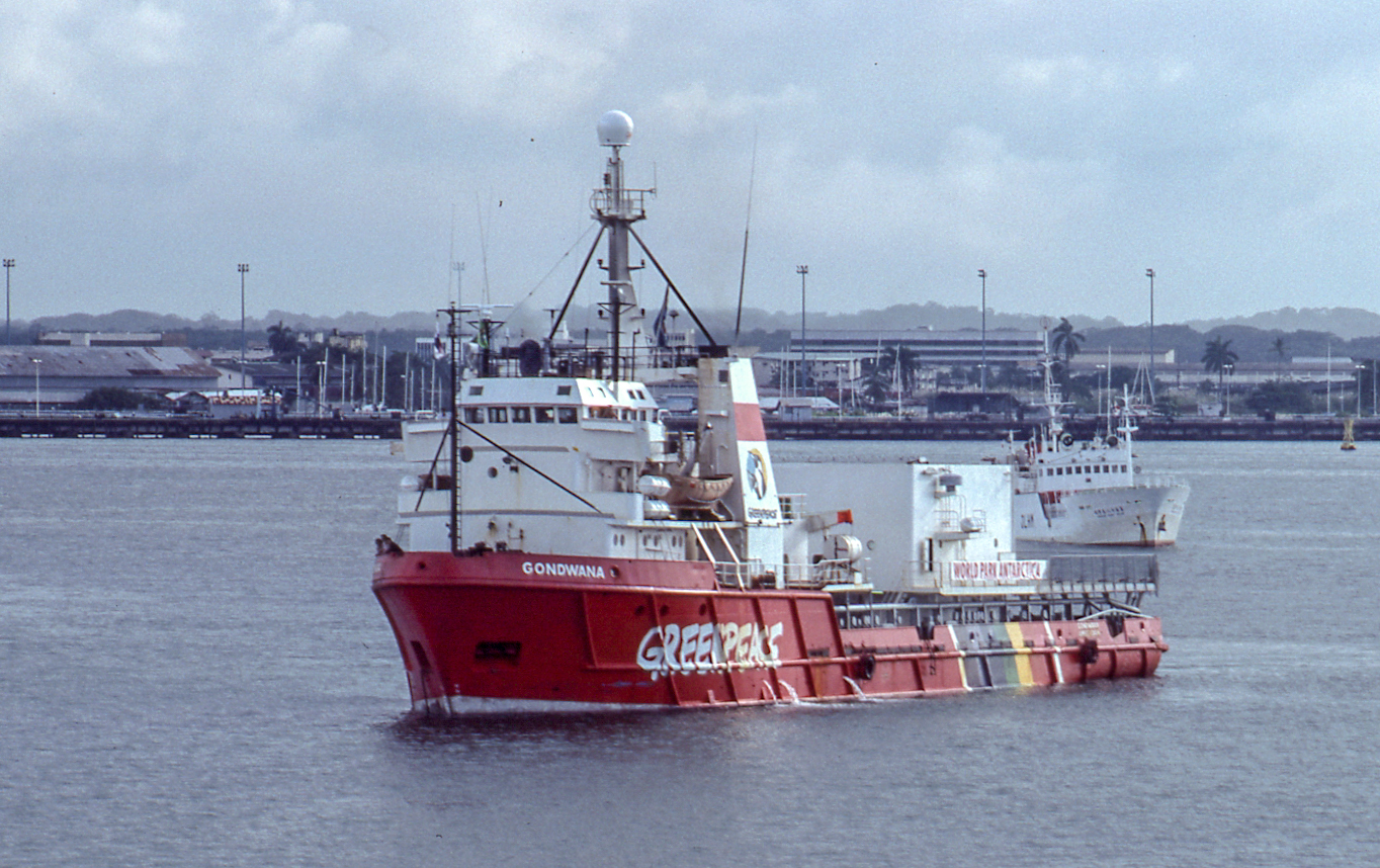 MV Gondwana in the Pananma Canal